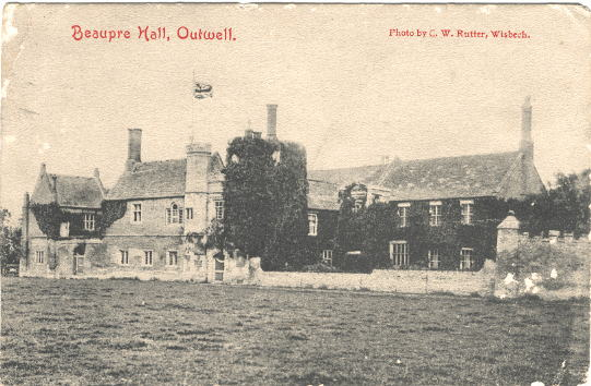 Beaupre Hall